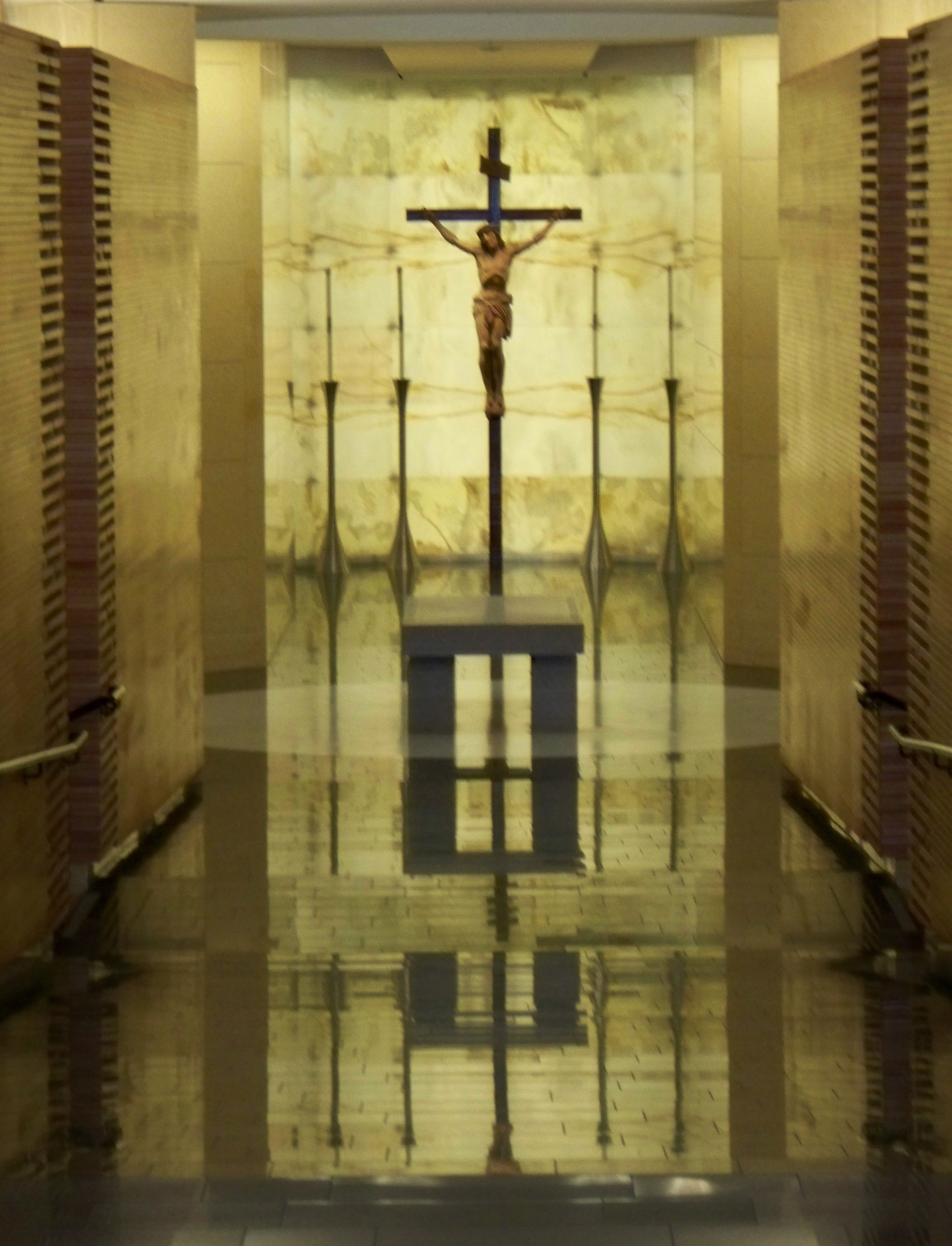 Interior of crypt/columbarium of the Cathedral of Christ the Light, Oakland, CA